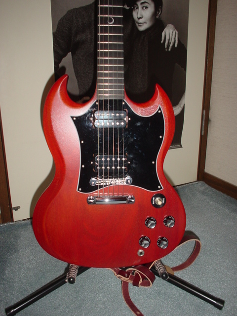 Gibson SG Special Faded Cherry